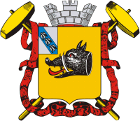 Rylsk (Kursk oblast), coat of arms (1893)